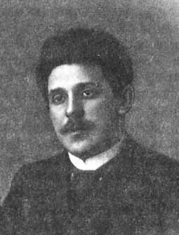 Russian writer Georgy Chulkov